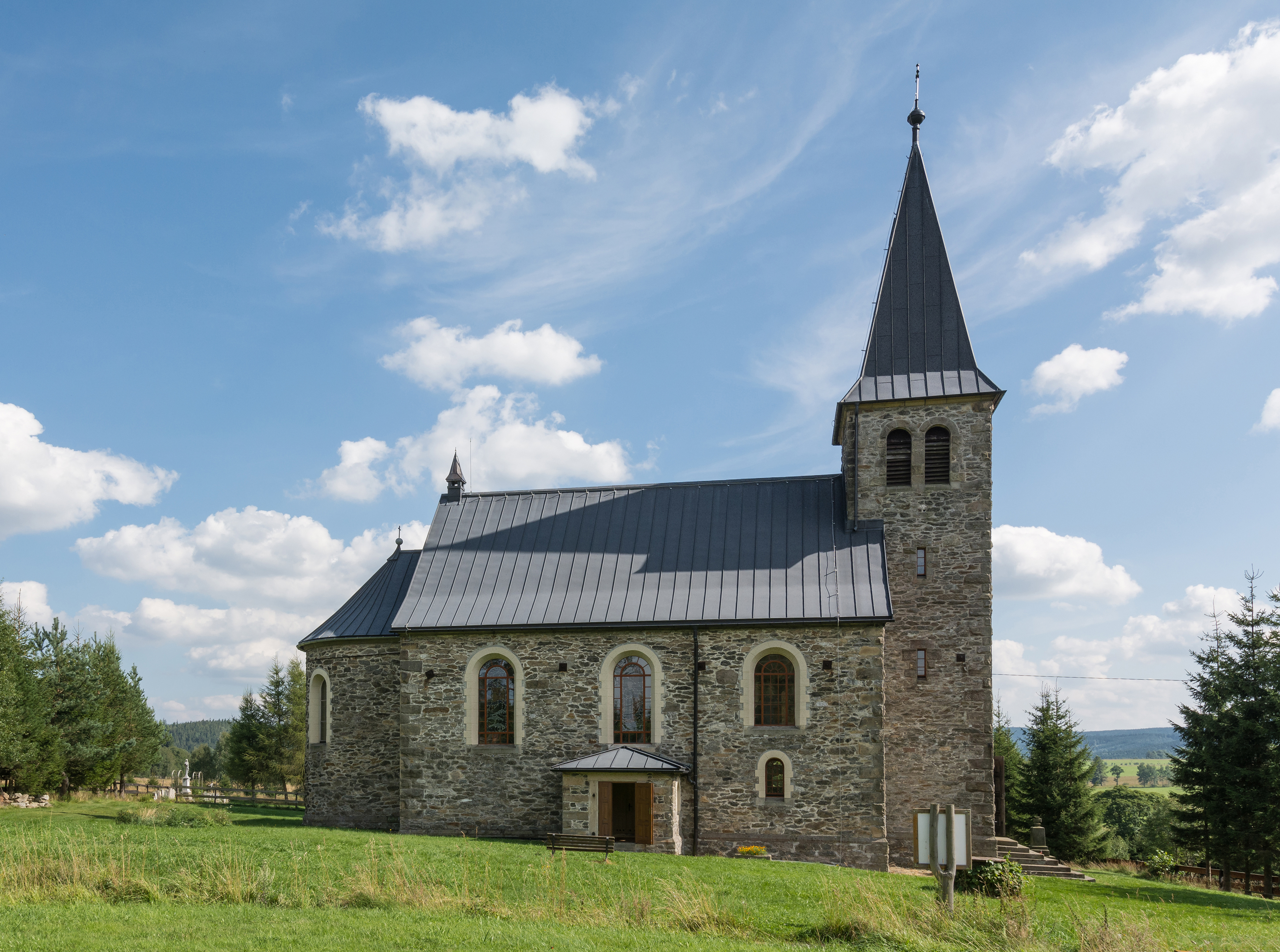 Saint Anthony of Padua church in Lasówka Wikidata has entry Q30046597 with data related to this item.